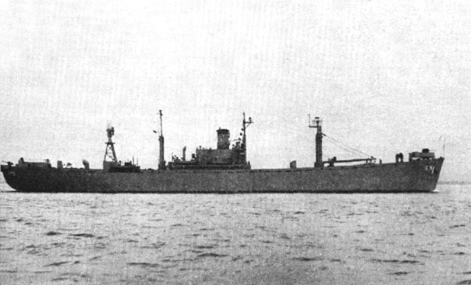 The U.S. Navy radar picket ship USS Picket (YAGR-7) in 1956. Picket was laid down on 28 March 1945 as a Z-EC2-S-C5 type Liberty ship, SS James F. Harrell (MCE hull 3138) by J. A. Jones Construction Co., Panama City, Florida (USA); launched on 17 May 1945, she was delivered for merchant marine service on 11 June 1945. Acquired by the U.S. Navy on 12 July 1955, and renamed Picket, the merchant ship was towed to the Navy Yard, Portsmouth, Virginia, for conversion to radar station ship YAGR-7. She was commissioned on 8 February 1956, and was reclassified AGR-7 on 28 September 1958. From 1956 to 1965, Picket used her long range radar and communications equipment to serve the North American Air Defense Command. She was decommissioned on 1 September 1965.